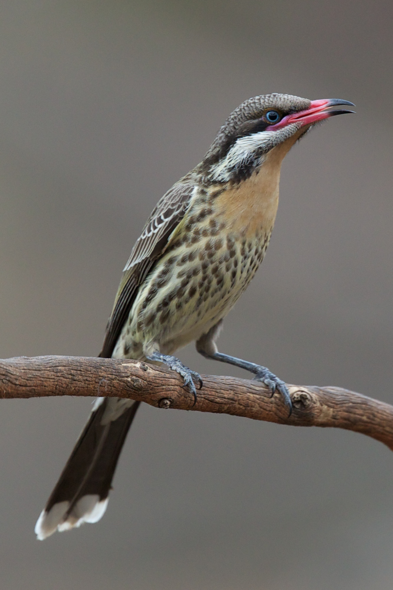 Acanthagenus rufogularis: Spiny-cheeked Honeyeater, Gluepot Reserve, South Australia.